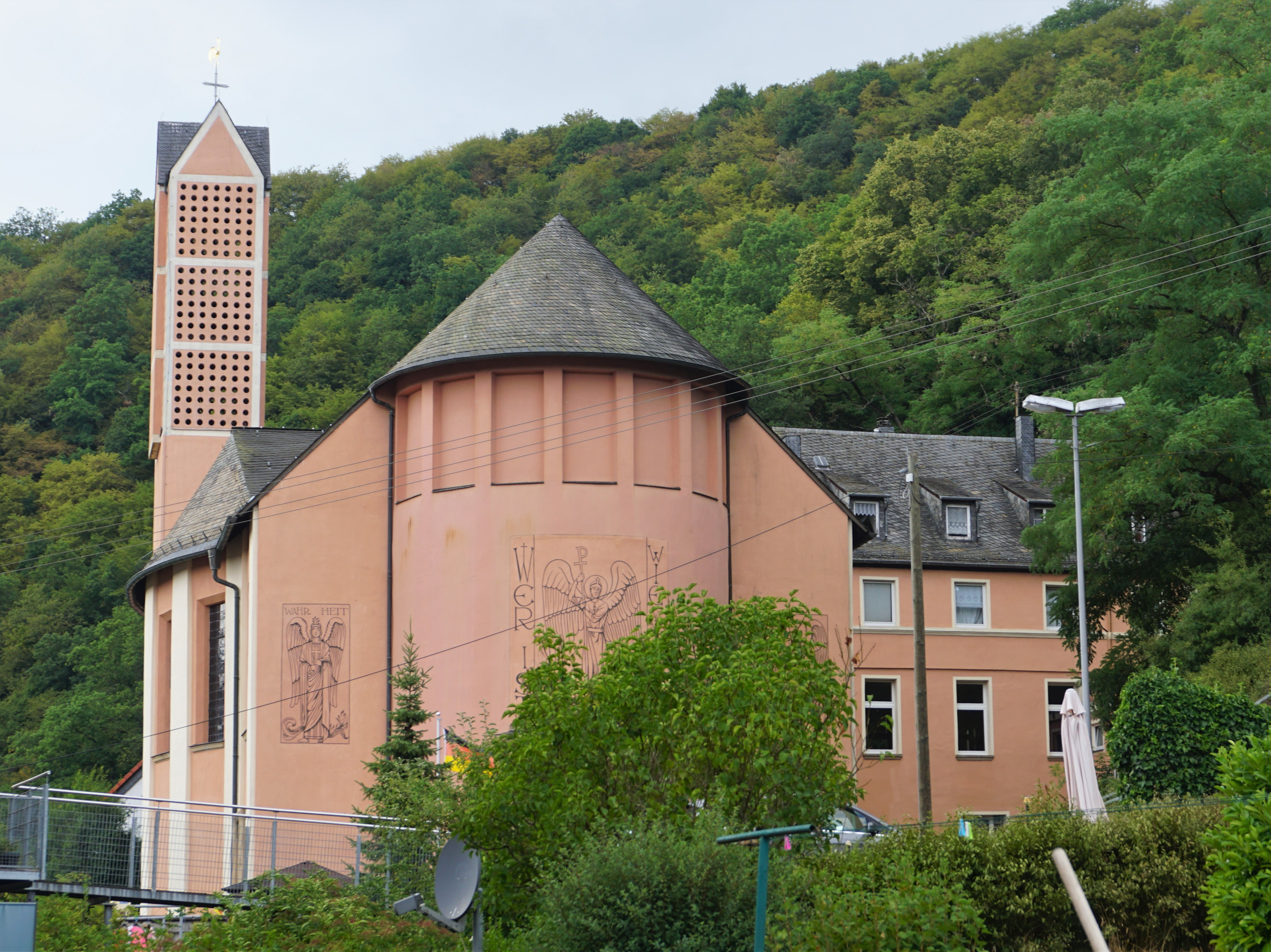 Panoramic view in west direction to the guardian angel church in Heimbach (Nahe).